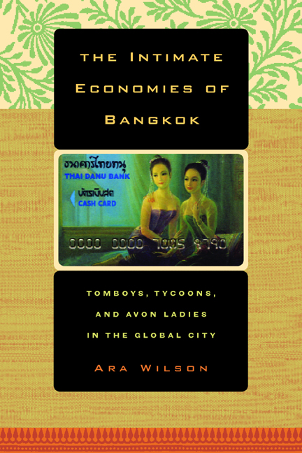 The Intimate Economies of Bangkok: Tomboys, Tycoons, and Avon Ladies in the Global City book cover. Book published by the Regents of the University of California; illustration courtesy of DBS Thai Danu Bank, Bangkok, Thailand, and of the artist Chakaphan Posiyakrit